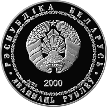 Спорт. Памятная монета "Дискобол", посвященная Олимпийским играм в Сиднее